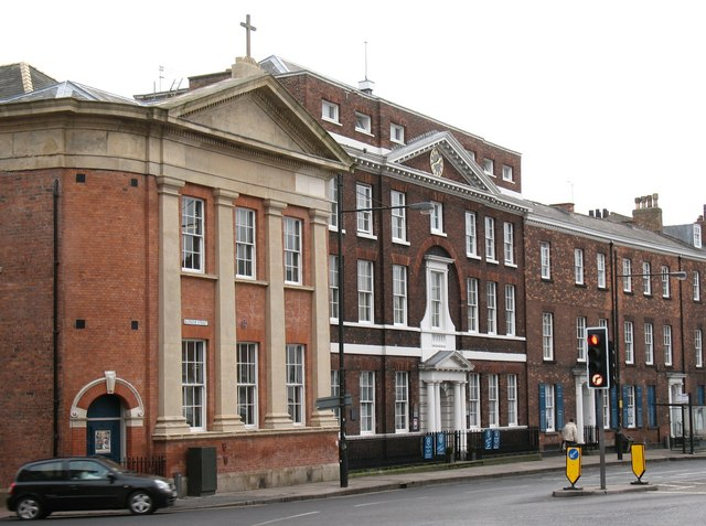 The Bar Convent, Blossom Street, York in North Yorkshire